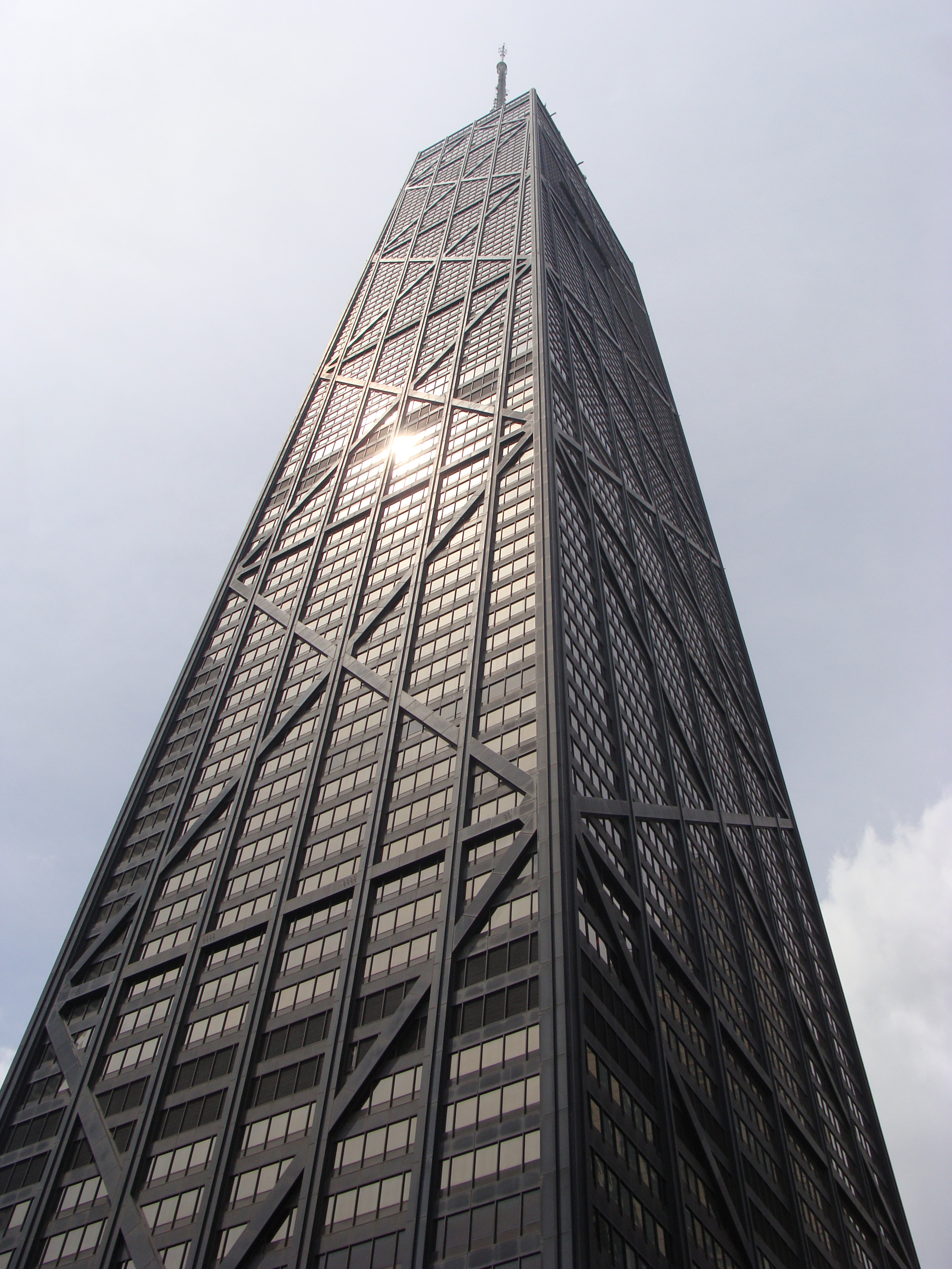 Sunlight gleaming off the John Hancock Center in Chicago. Taken from Delaware Pl and Mies Van Der Rohe Way.